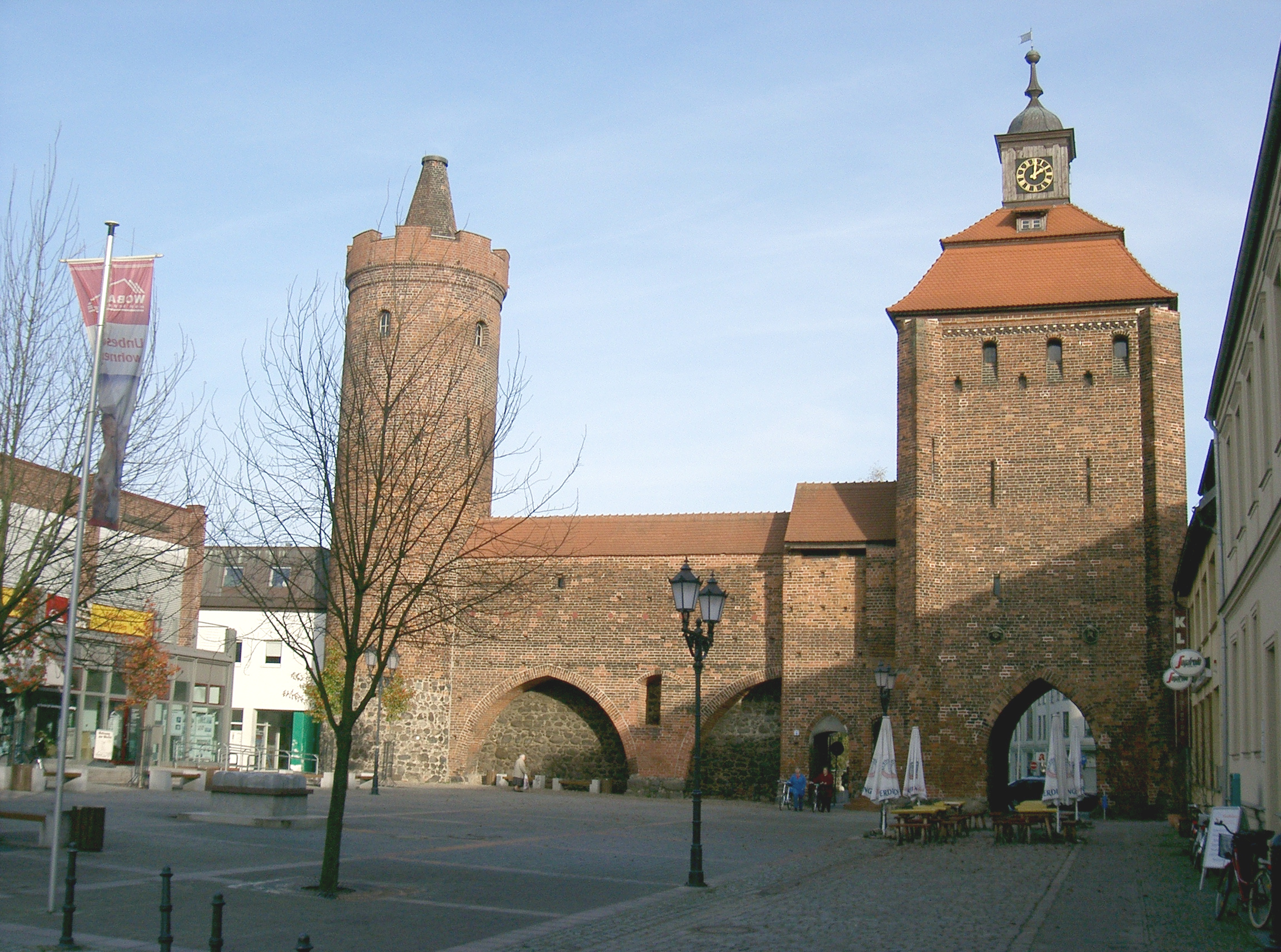 The Steintor (engl. Stone Gate) and Hungerturm (engl. Tower of Hunger) in the german city Bernau bei Berlin.